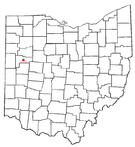 Location of Wapakoneta, Ohio